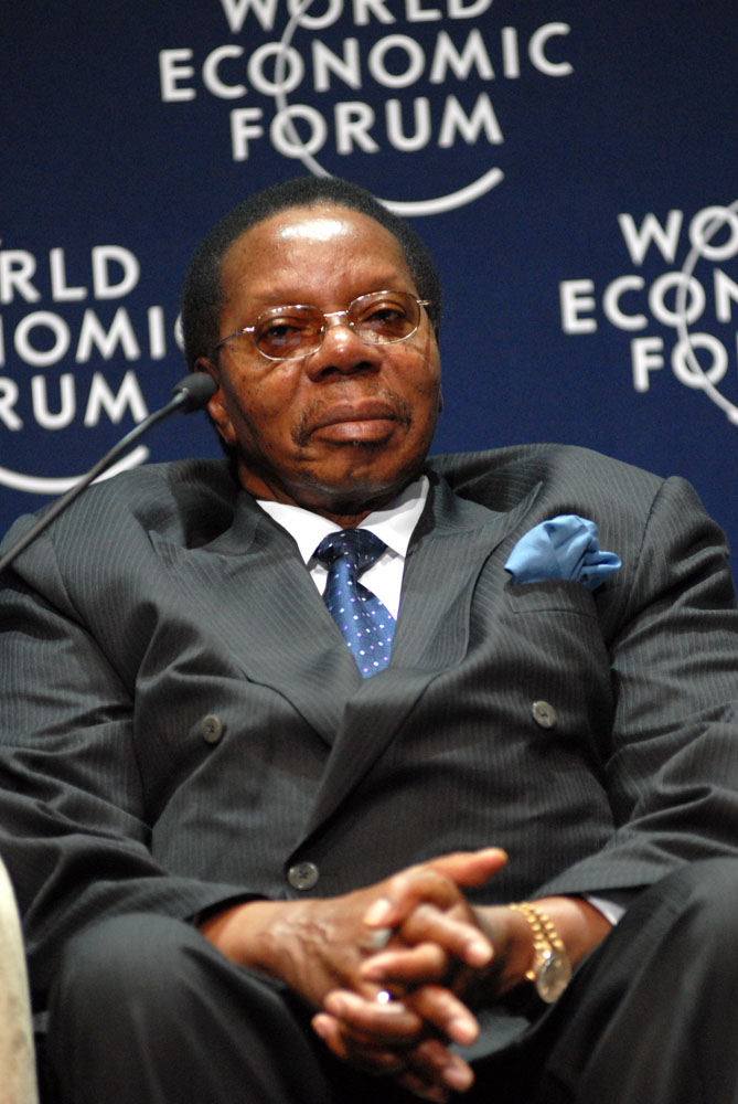 CAPE TOWN/SOUTH AFRICA, 4JUN08 - Bingu Wa Mutharika, President of Malawi, captured during the Opening Plenary of the World Economic Forum on Africa 2008 in Cape Town, South Africa, June 4, 2008. Copyright World Economic Forum ( Miller